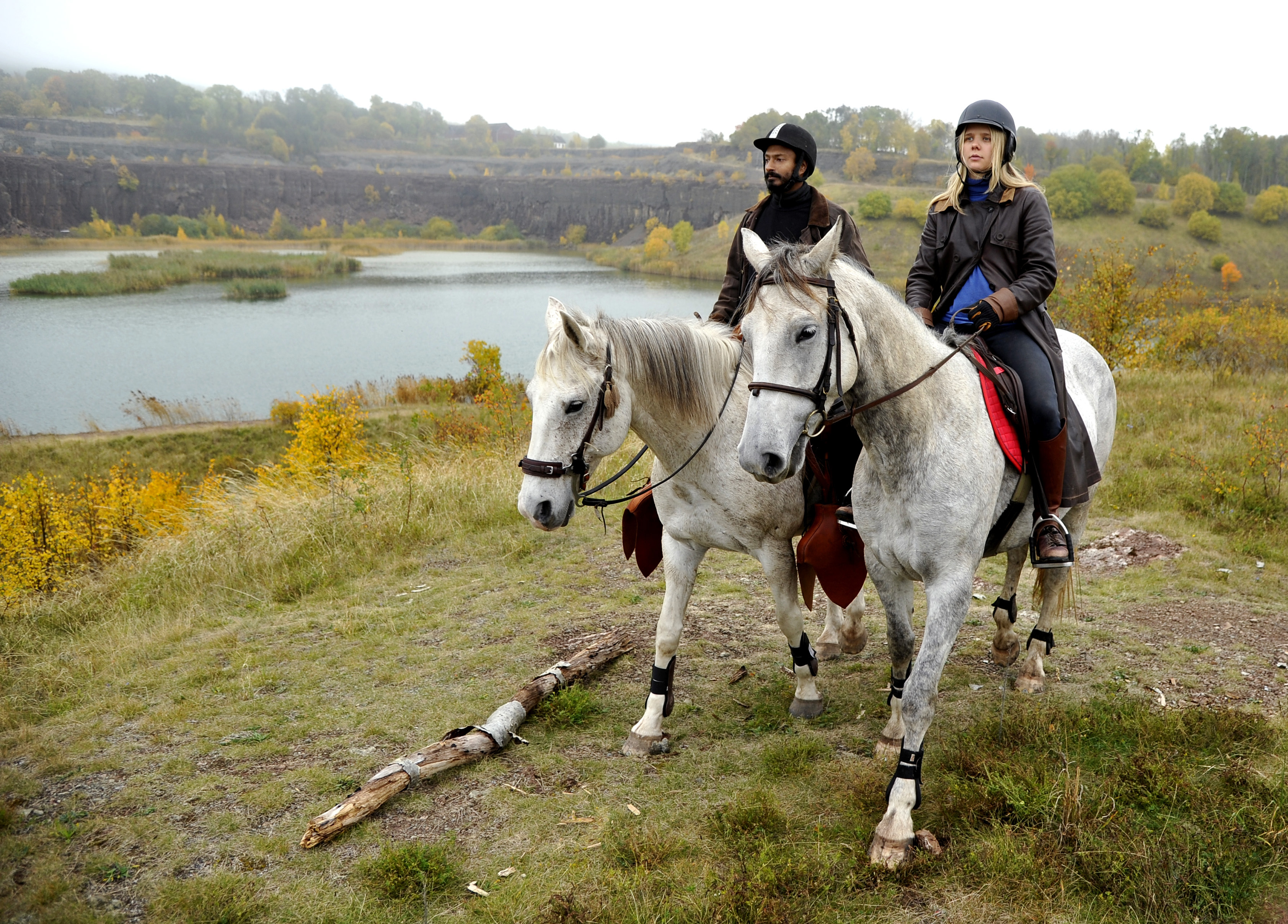 Sebastian Dahlberg and Disa Fjällström ride on a reconnaissance tour down the pond down the Kinnekulle limestone quarrelll in Kinnekulle that together with Mariestad archipelago is a biosphere area. y. They met last spring when they rode separately. Now they are trying to create a riding trail where everyone is welcome. Disa rides on Waimina from Stall Assla, Maria Lundberg. Sebastian's horse, which is a cross between an Arab and a Lipizaner named Amigo. Photo by: Jan Fleischmann This is an image of the Biosphere Reserve or a Geopark: Lake Vänern Archipelago